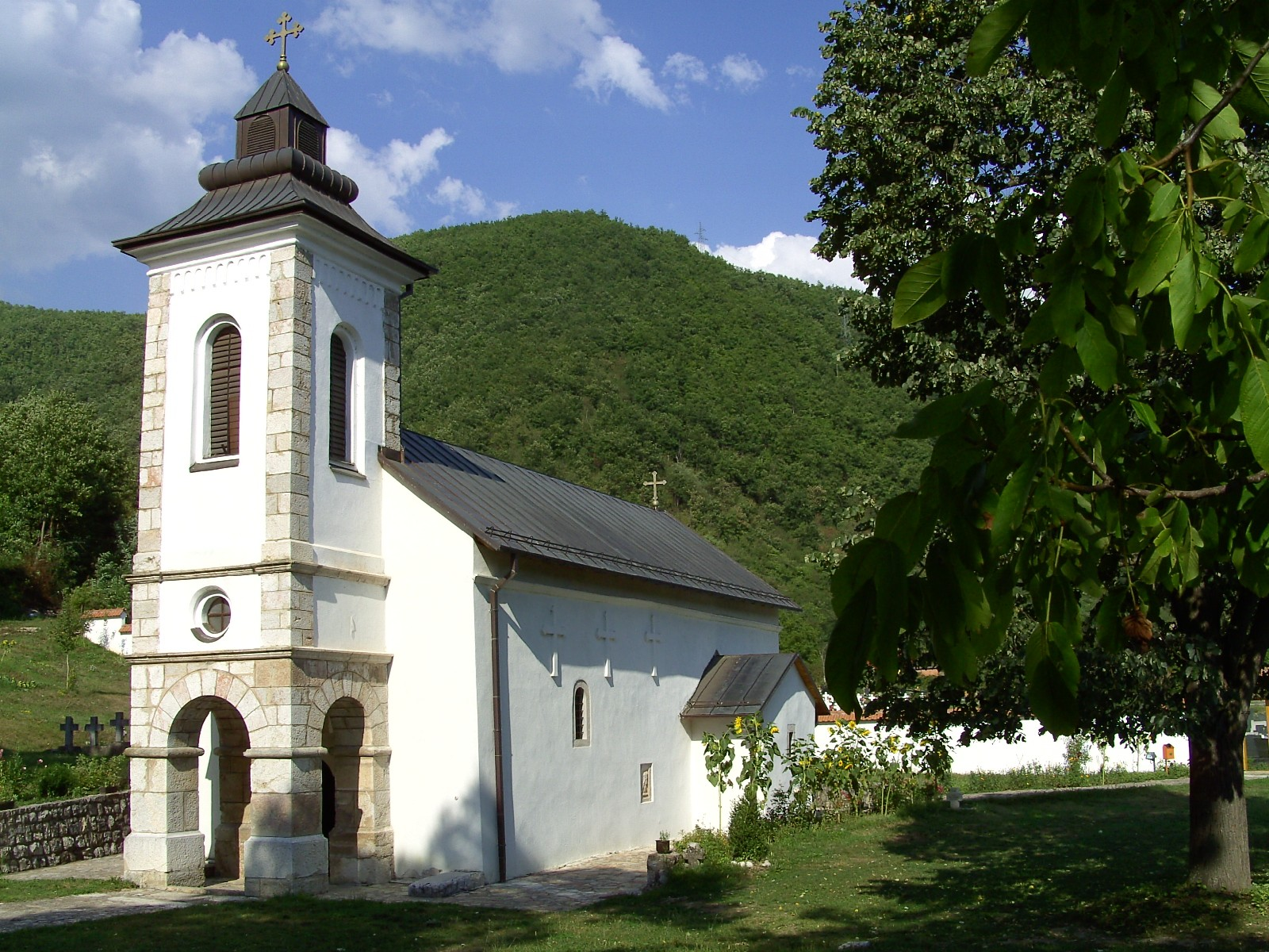 Church of Saint George in the village of Sopotnica, Municipality of Novo Goražde, Republika srpska, Bosnia and Herzegovina